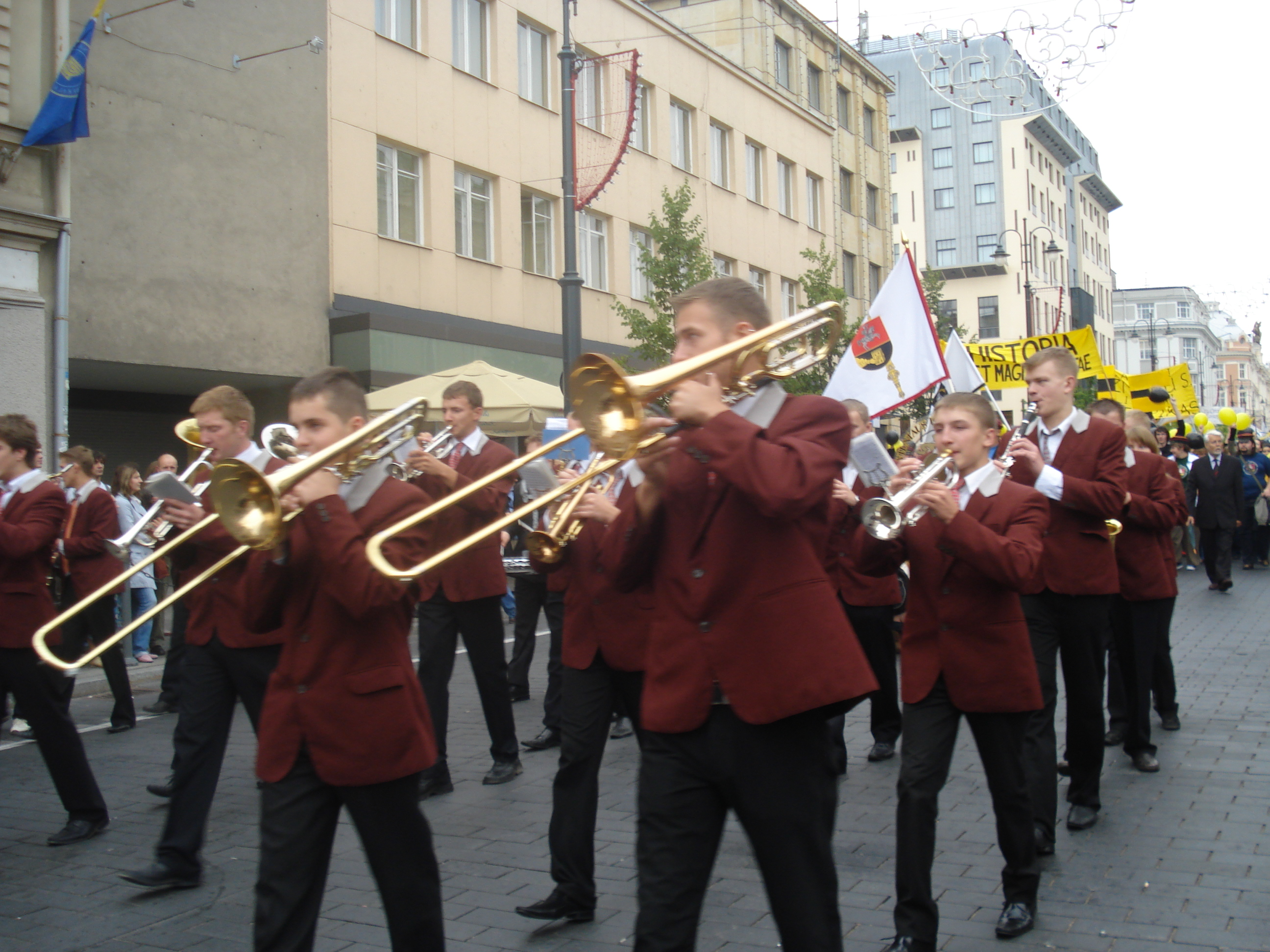 March of the Vilnius University through the Gediminas Avenue on the occasion of new academic year